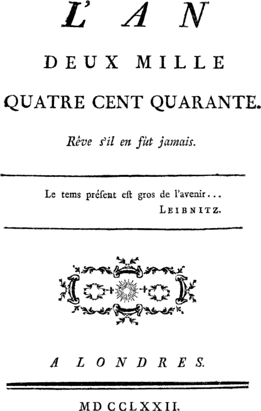 Title page from "L'An 2440, rêve s'il en fut jamais" (1772 London edition), by Louis-Sébastien Mercier (1740-1814)